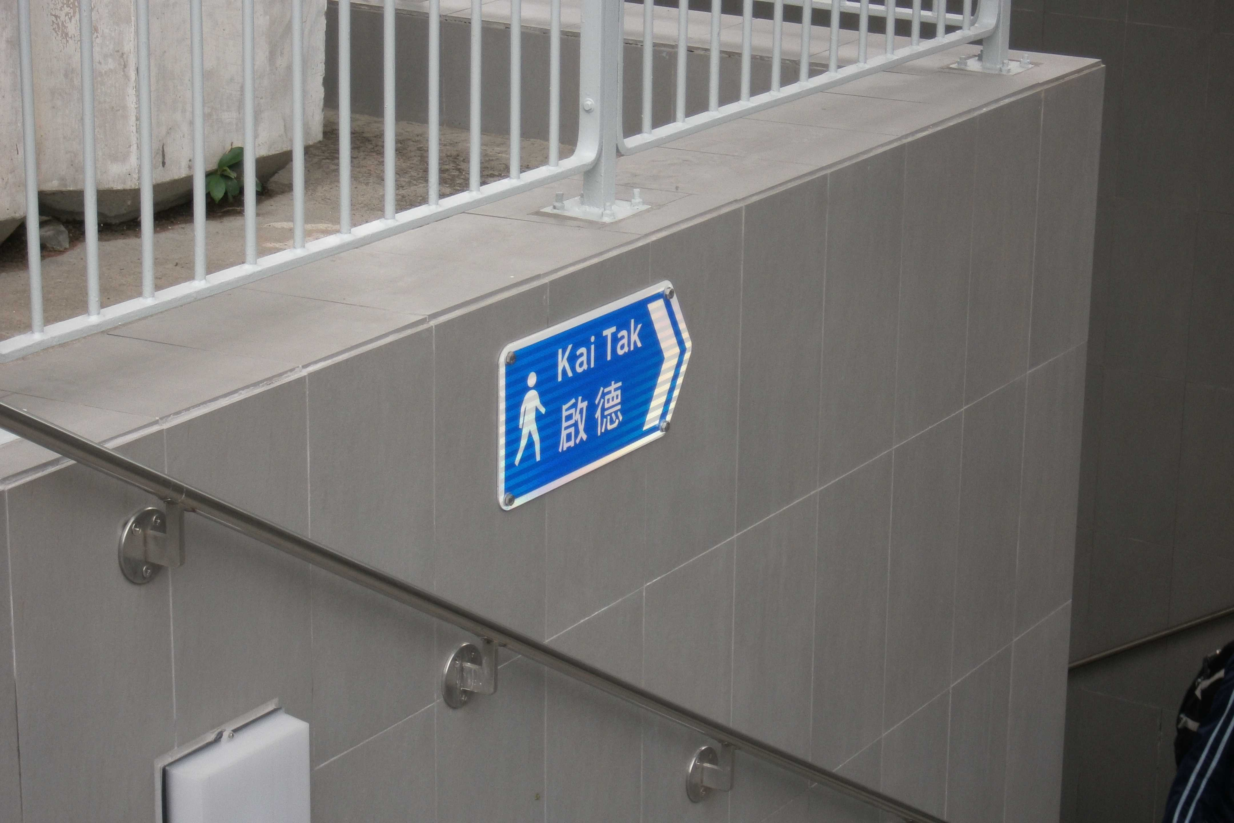 Pedestrian subway to kai tak